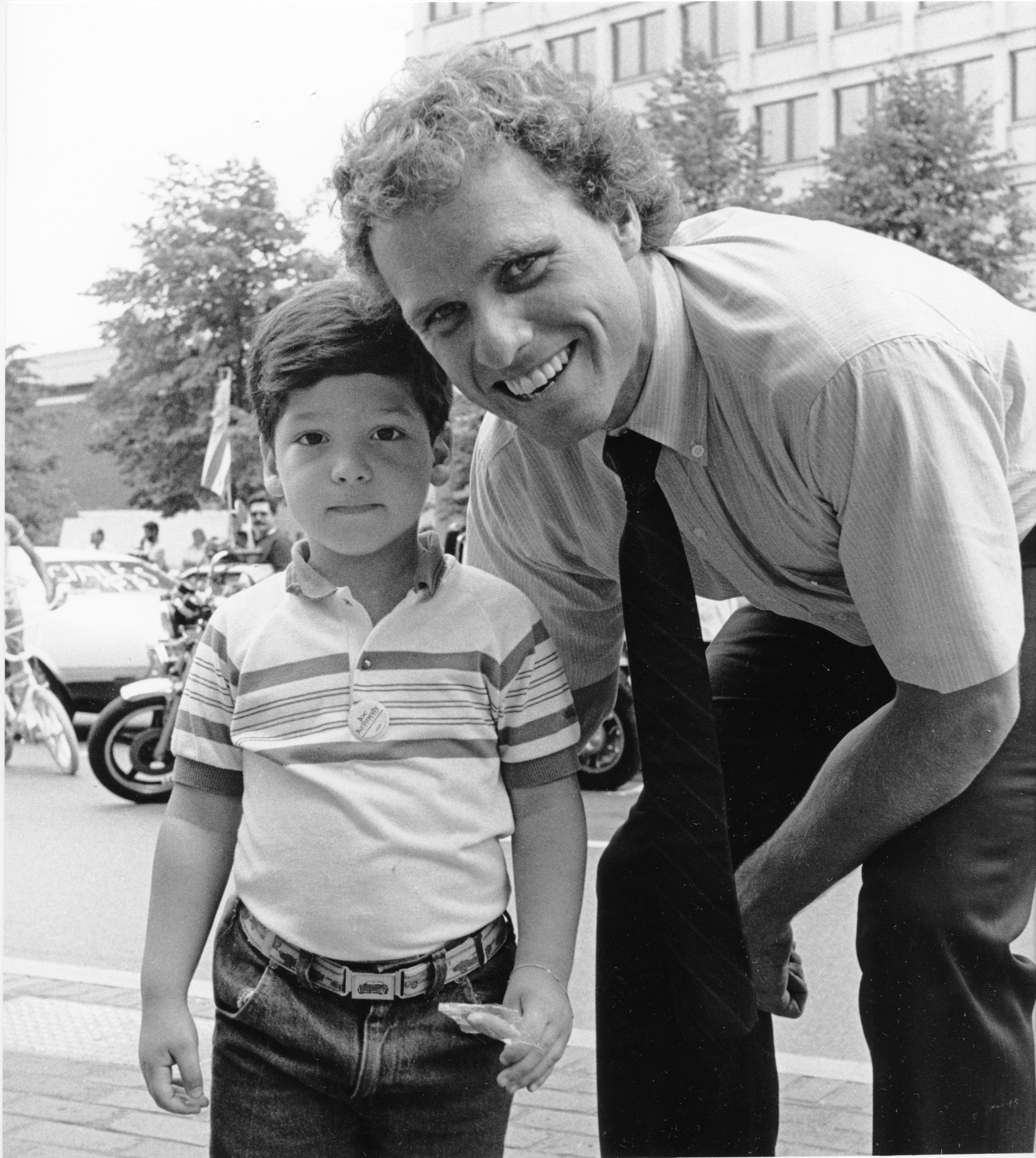 Title: Joseph P. Kennedy II and child Creator: Mayor's Office - City Photographer Date: circa 1984-1987 Source: Mayor Raymond L. Flynn records, Collection #0246.001 File name: RF_0595 Rights: Copyright City of Boston Citation: Mayor Raymond L. Flynn records, Collection #0246.001, City of Boston Archives, Boston